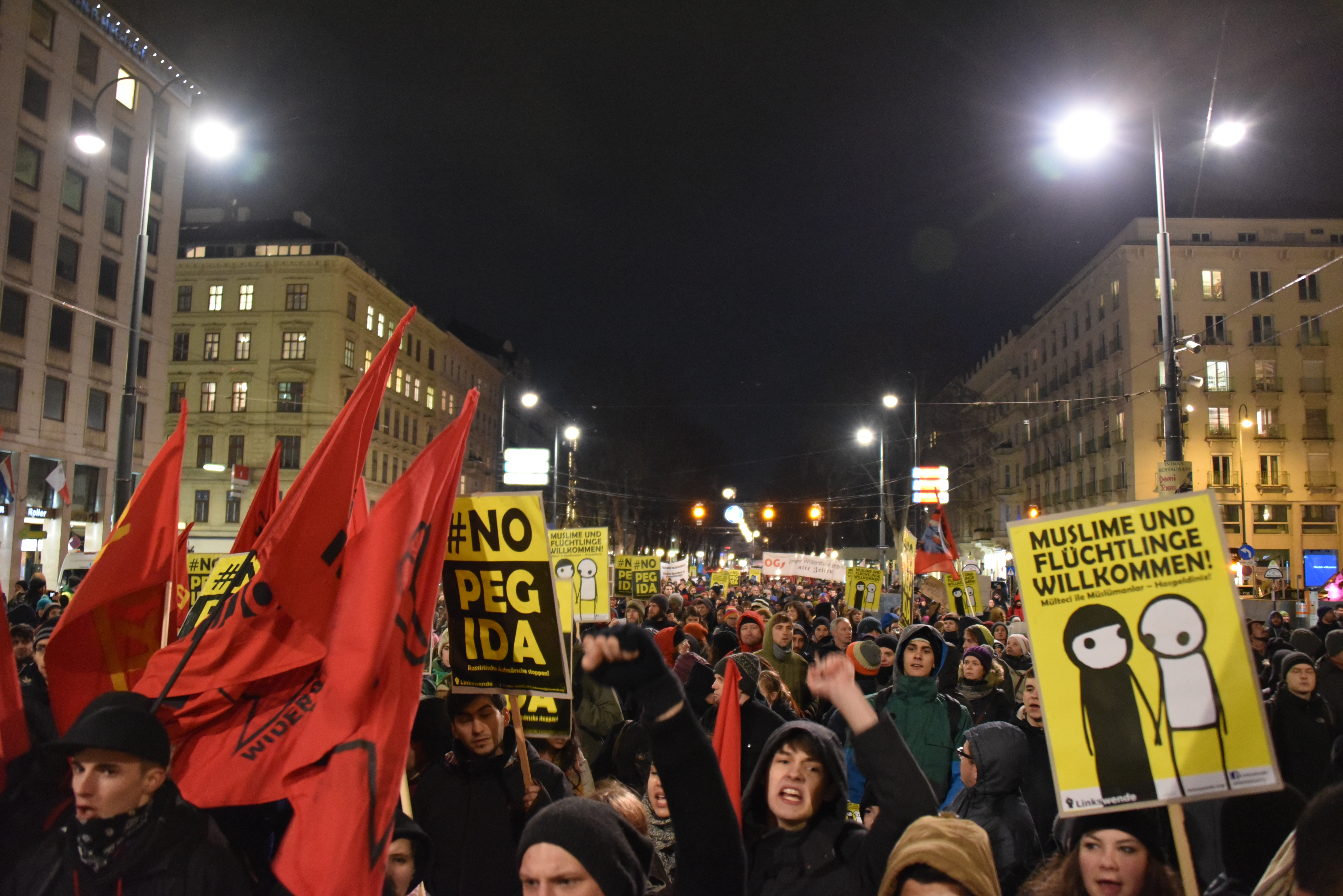 Offensive gegen Rechts demonstrating against Pegida in Vienna's Kärntner Strasse